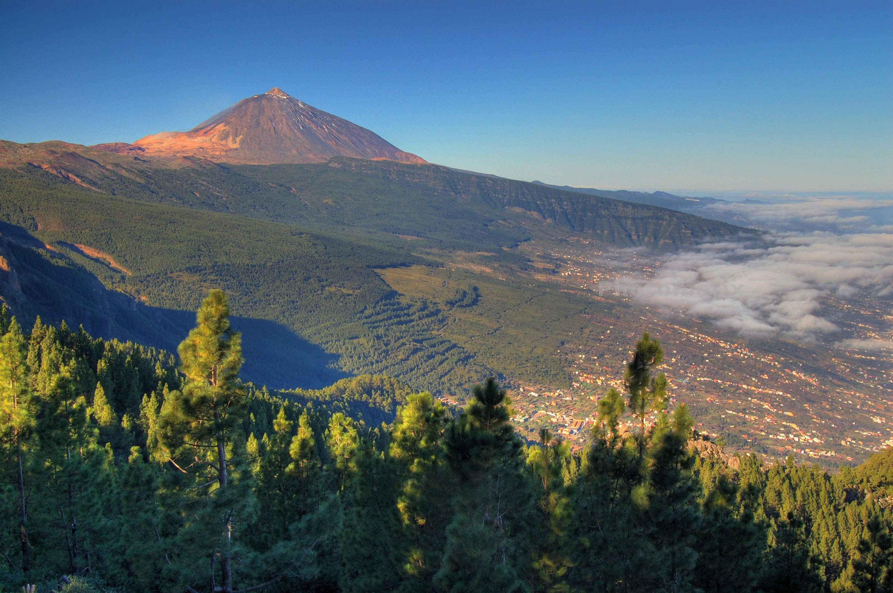 Teide and Orotava Valley. Photo by Enrique Bartolomé Ruiz.